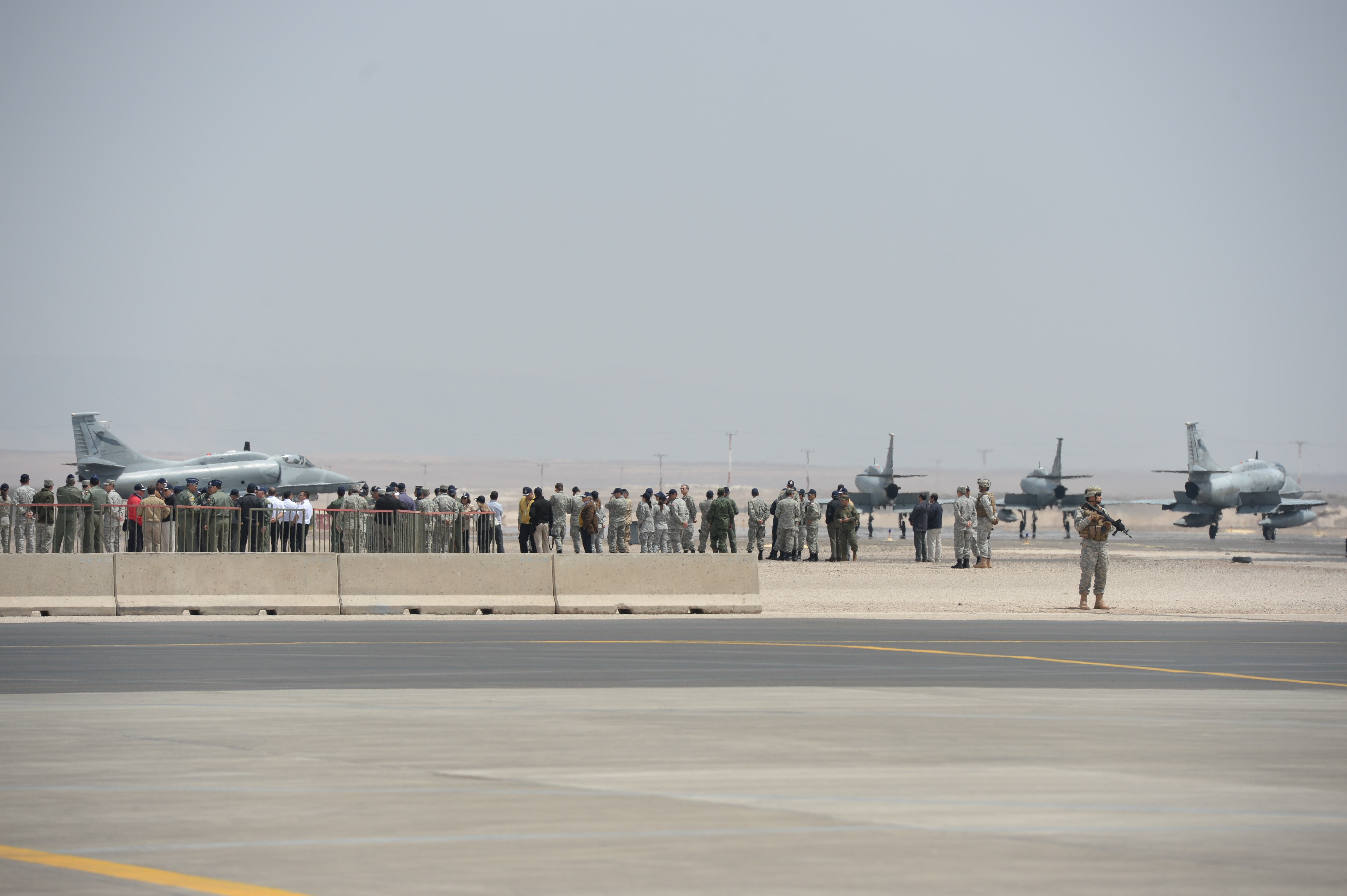 U.S. Air Force Lt. Gen. Joseph L. Lengyel, Vice Chief, National Guard Bureau visits Cerro Moreno Air Force Base, near Antofagasta, Chile, Oct. 15, representing the USAF, National Guard and the Texas Air National Guard while promoting the State partnership between Chile and the U.S. during Salitre 2014. Salitre is a Chilean-led exercise where the U.S., Chile, Brazil, Argentina and Uruguay focus on increasing interoperability between allied nations. (Air National Guard photo by Senior Master Sgt. Miguel Arellano/released)